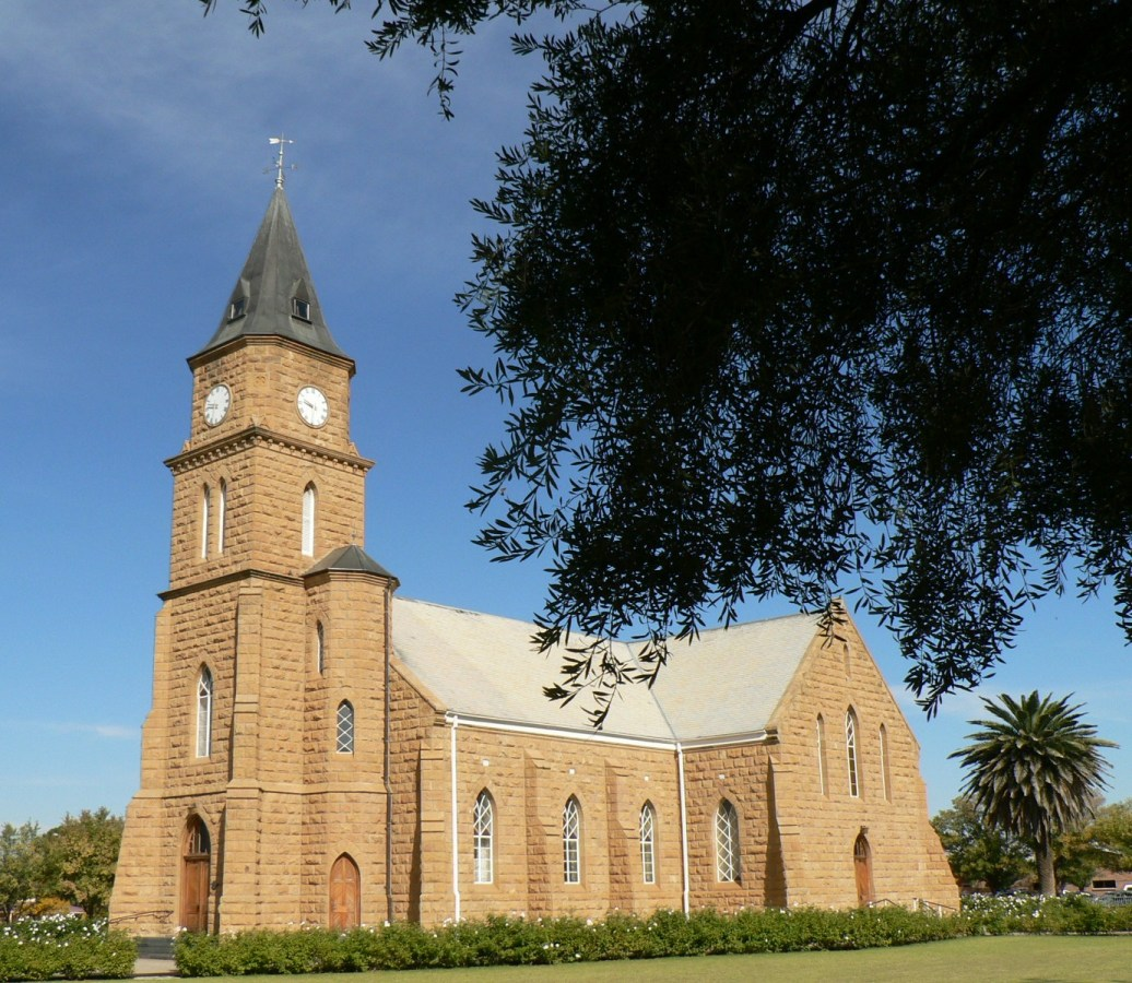 This media shows a South African Protected Site with SAHRA file reference 9/2/319/0001.